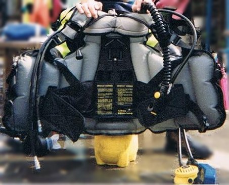 Diver's BC - derivative image, distracting background removed from original which was originally released under a PD license.[1]